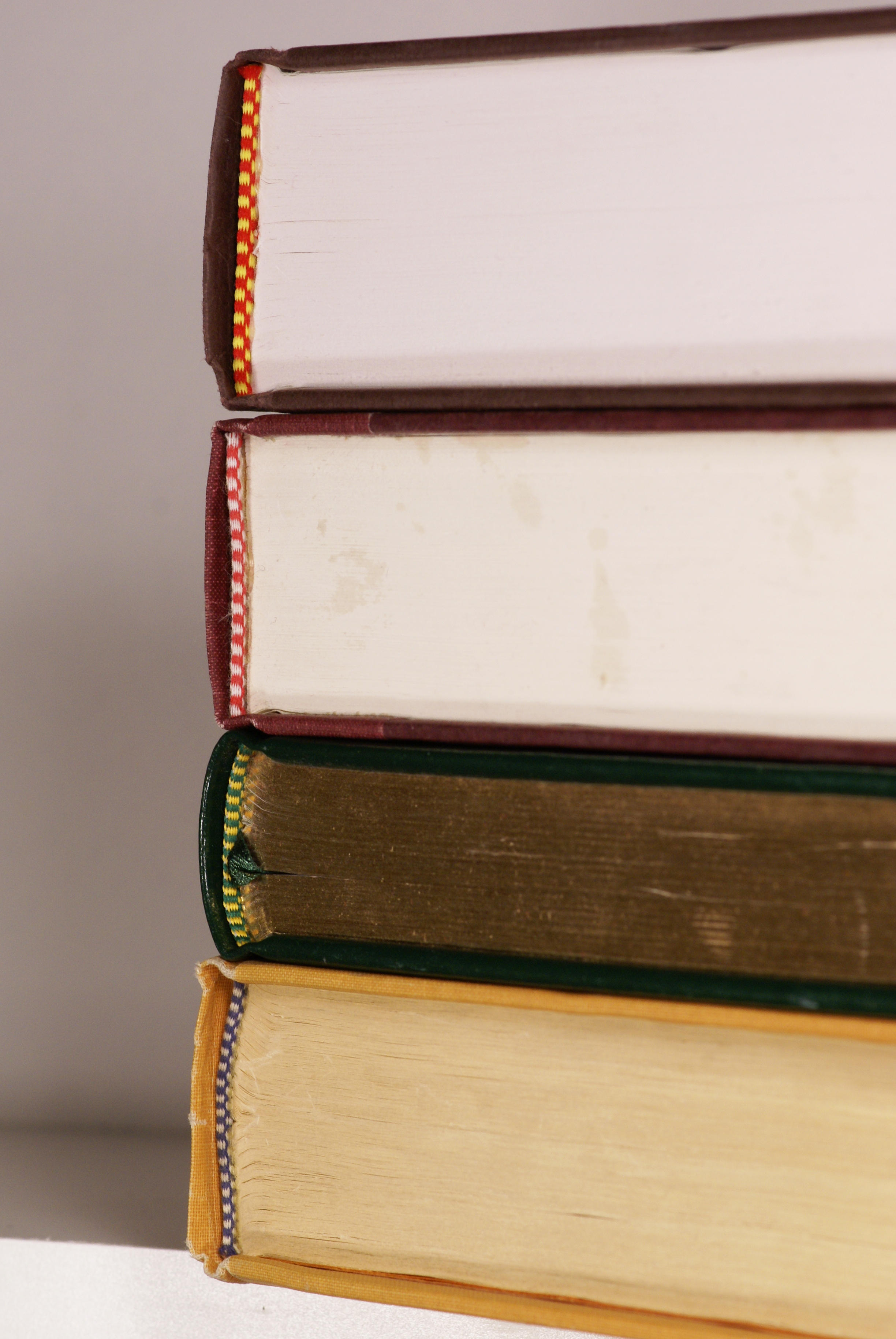 The headbands of four books showing some variation in the decorative style and colors